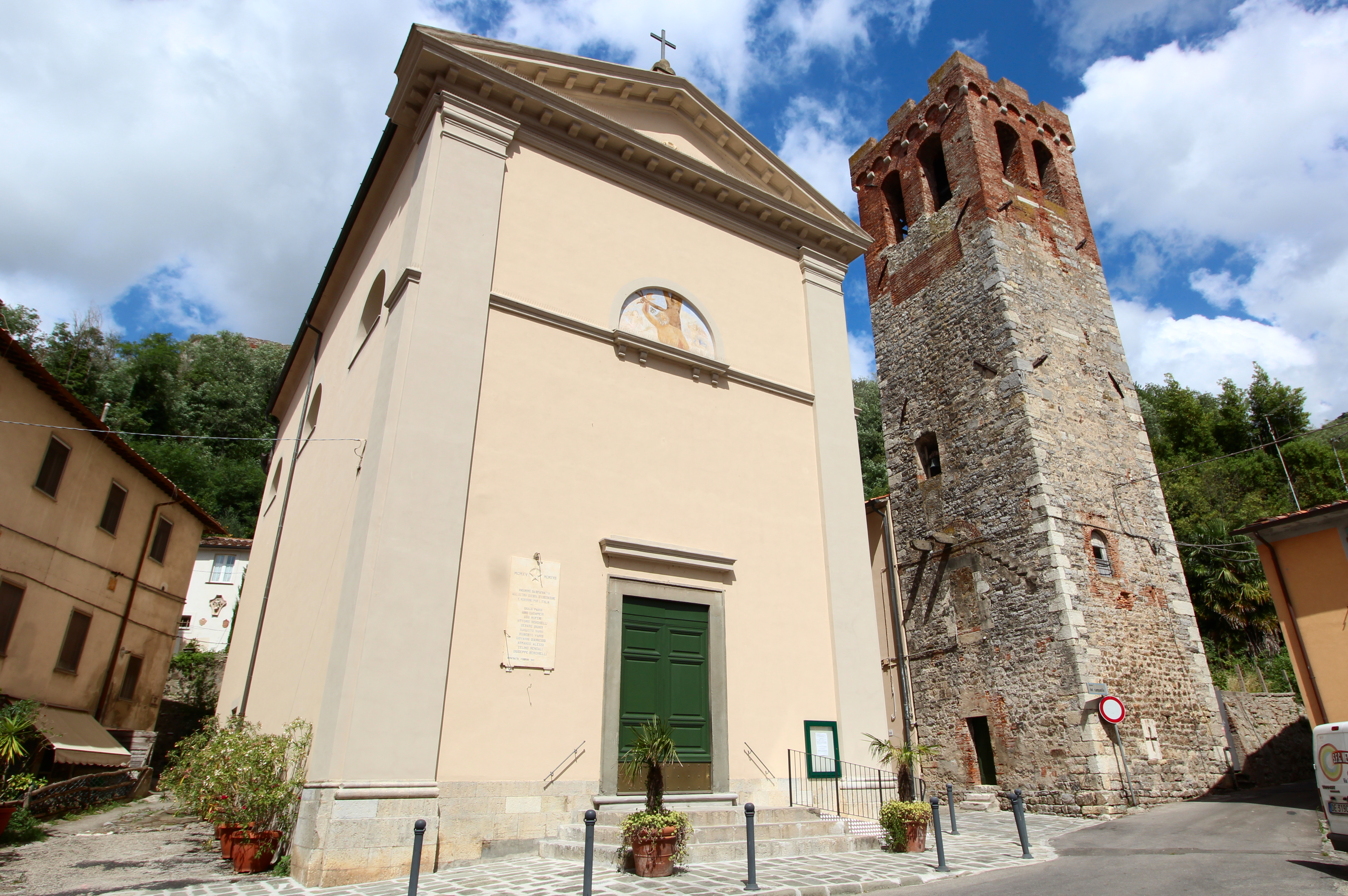 Church San Bartolomeo Apostolo, Ripafratta, hamlet of San Giuliano Terme, Province of Pisa, Tuscany, Italy